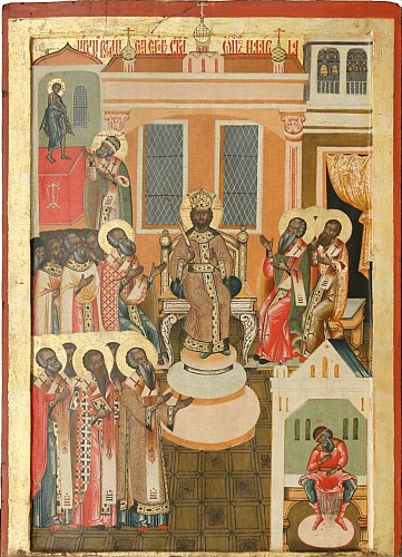 First Council of Nicea (russian icon)